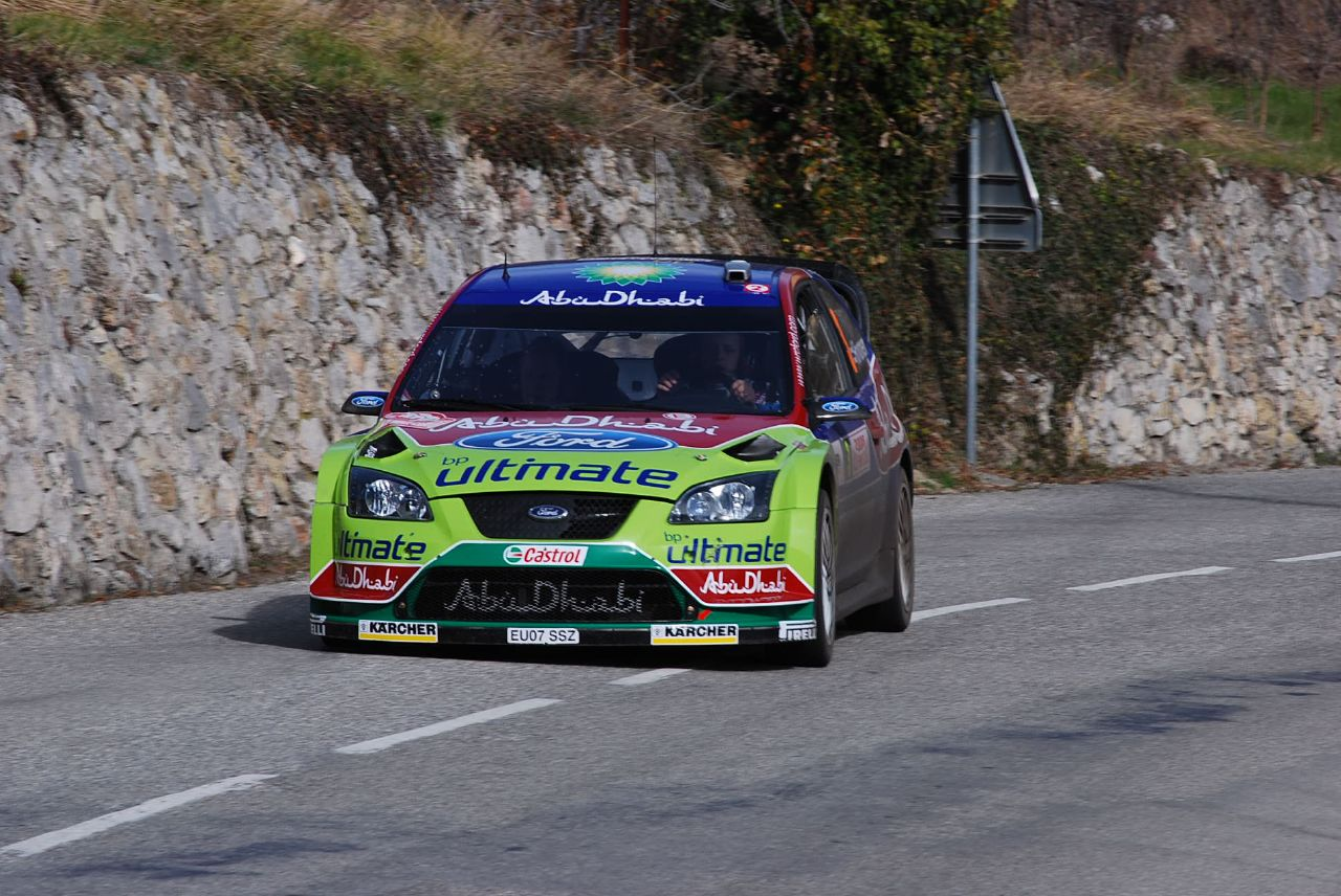 Mikko Hirvonen driving his Ford Focus RS WRC 07 on a road section during the 2008 Monte Carlo Rally.